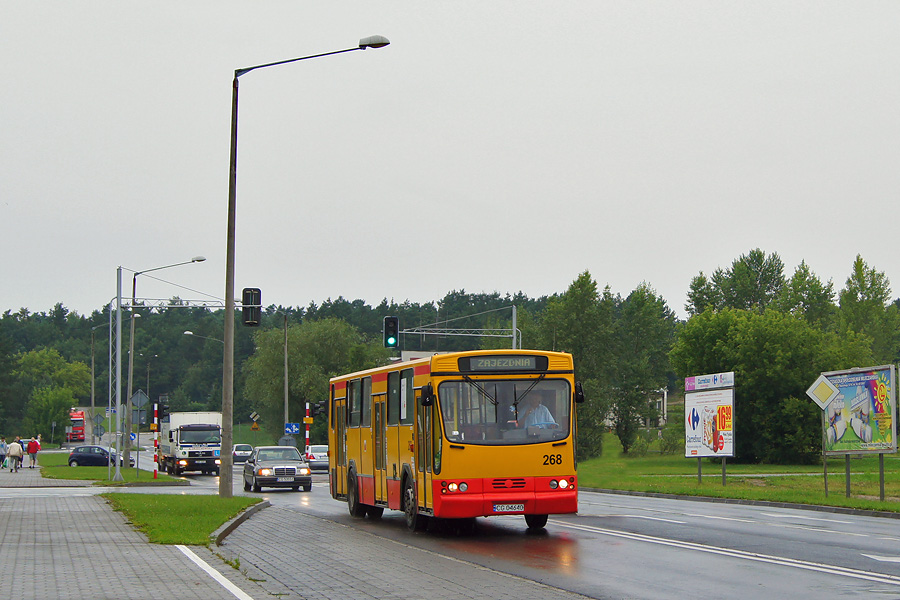 Jelcz PR110M bus (#268) in Południowa street, Grudziądz, Poland. Built 1992, MZK Grudziądz operator.